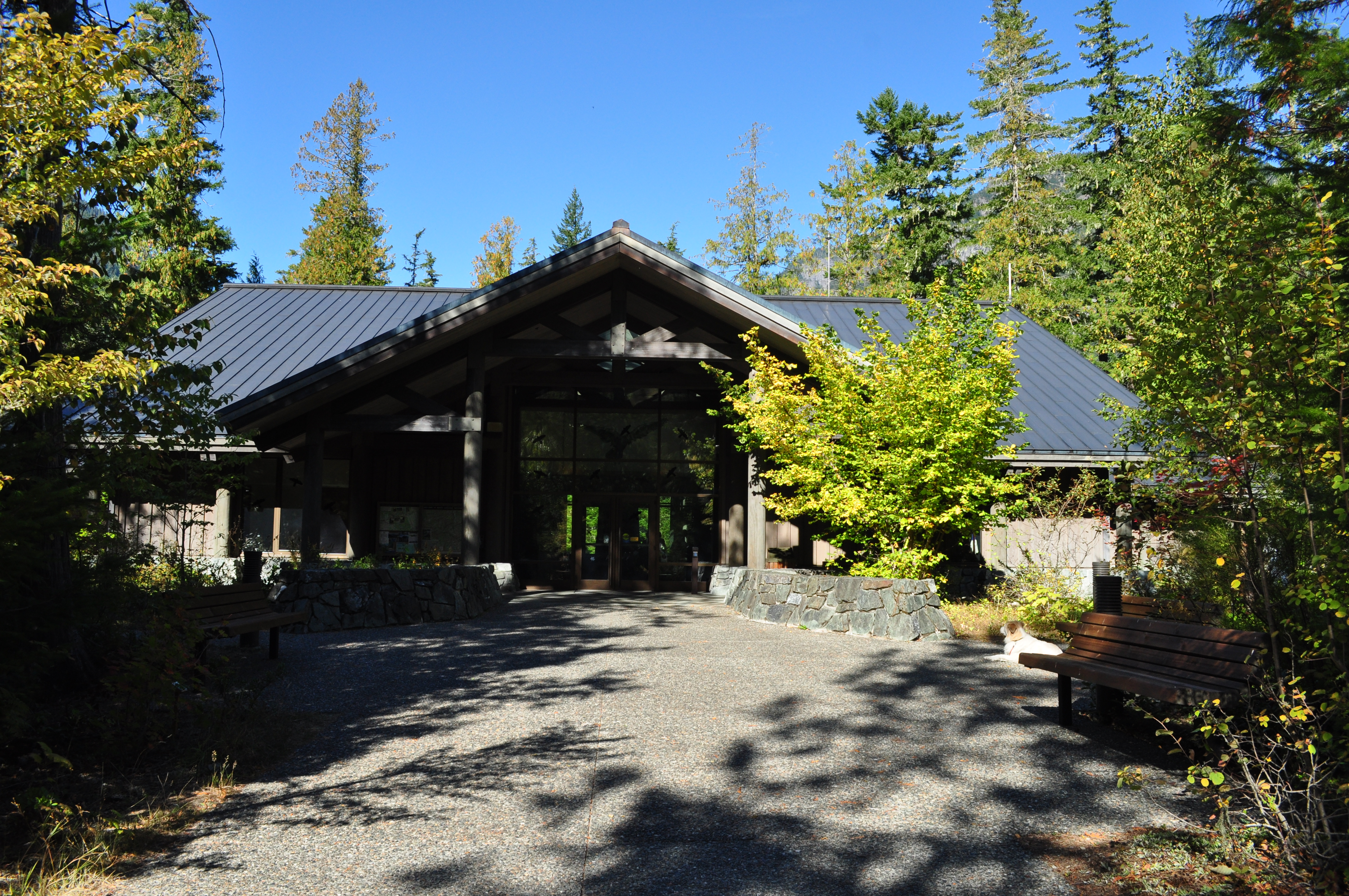 Visitor Center, North Cascades National Park, near Newhalem, Washington, USA.